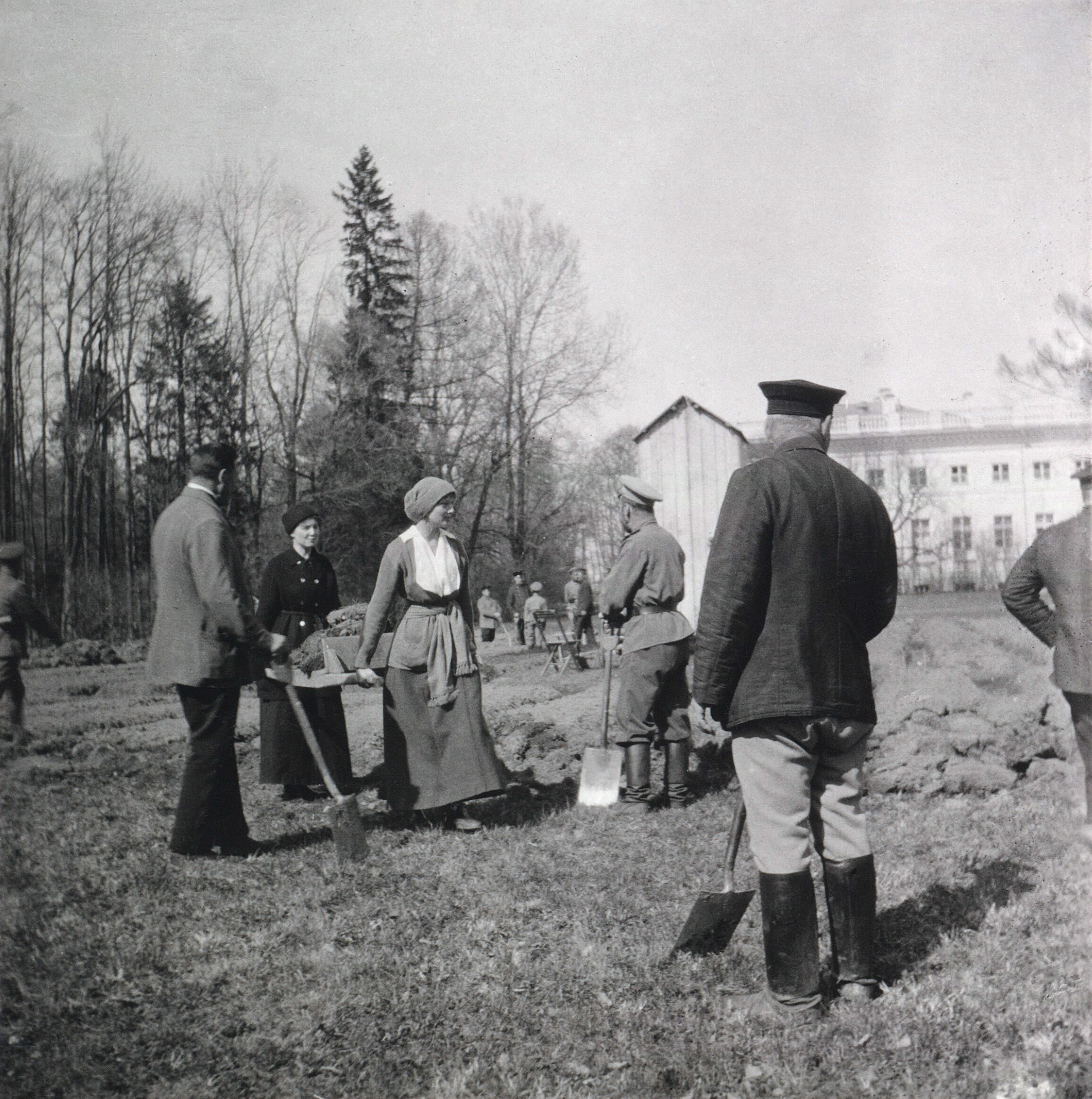 The former Imperial family spading the ground for a vegetable garden behind the Alexander Palace, 1917 April – Tatiana carrying a litter of dirt, Nicholas standing with spade in hand. The woman behind Tatiana is lady-in-waiting Anastasia Hendrikova.